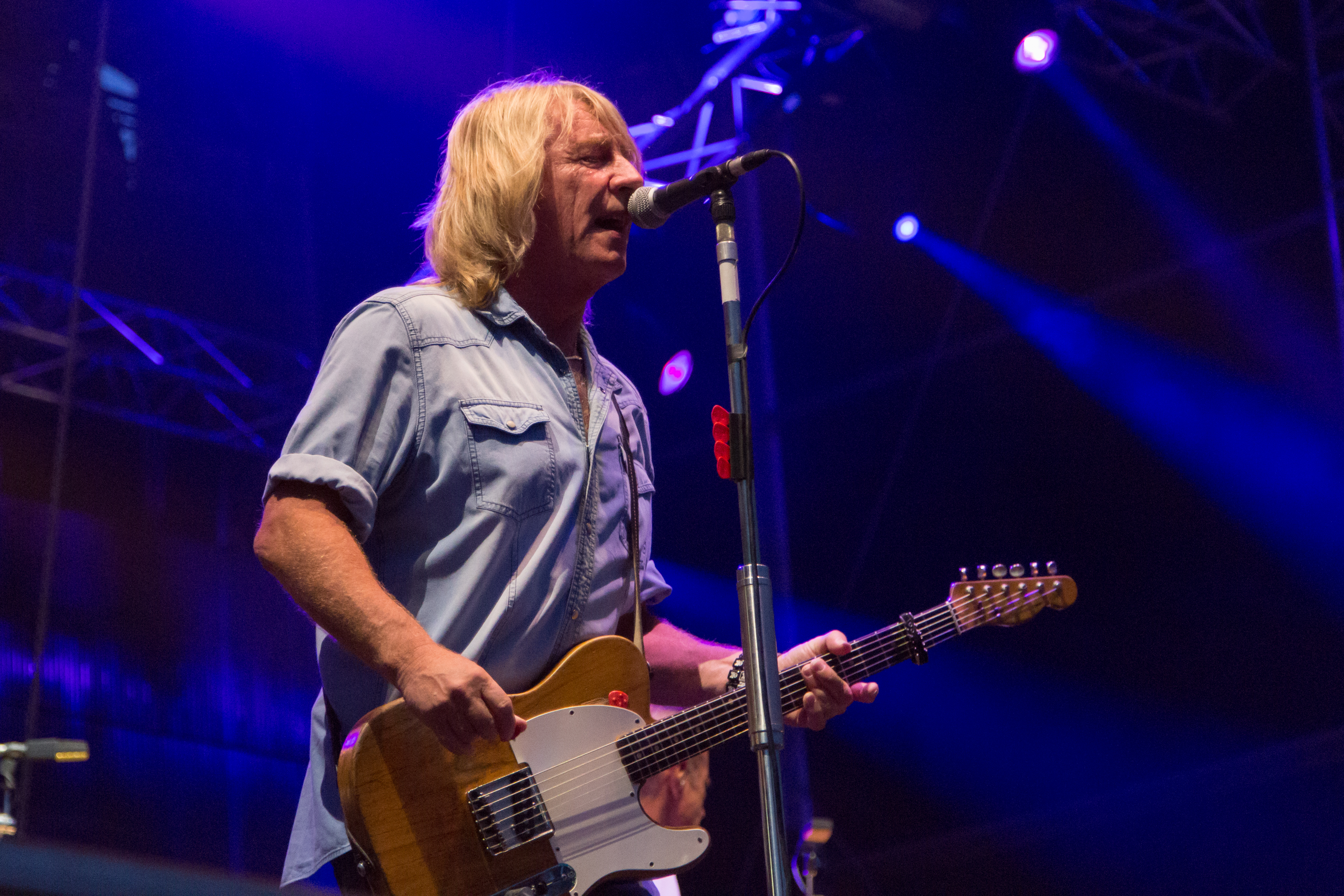 Rick Parfitt from Status Quo at the See-Rock Festival 2014